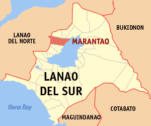 Map of the Lanao del Sur showing the location of Marantao